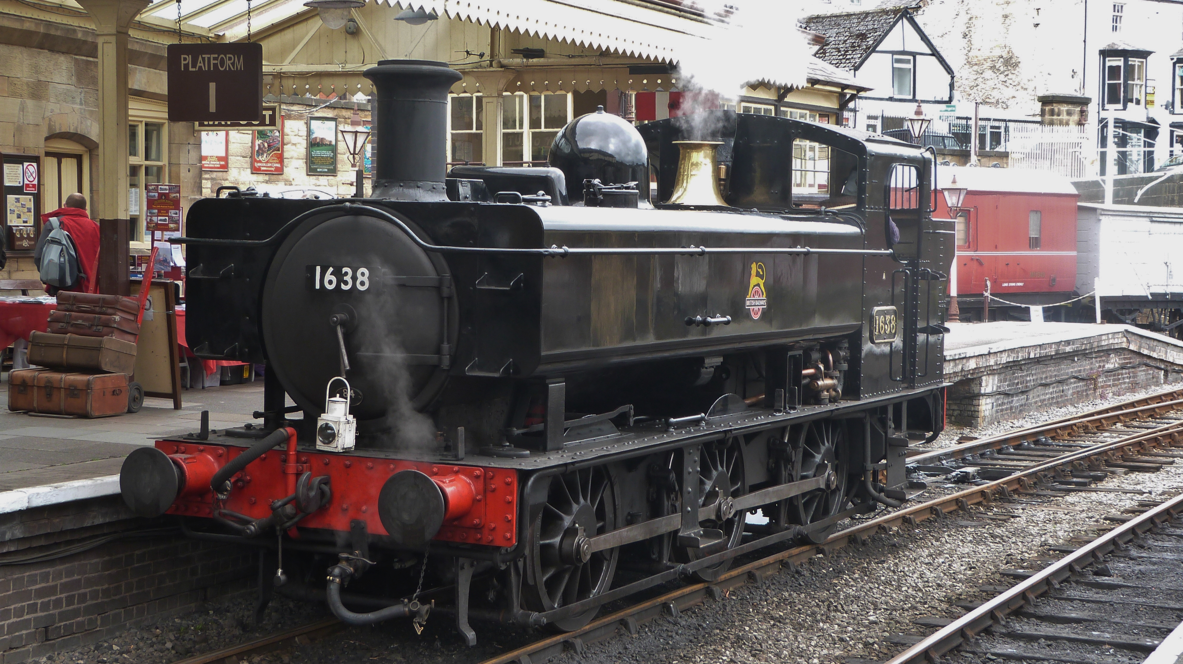 The 1076 Class were 266 double framed 0-6-0 tank locomotives built by the Great Western Railway between 1870 and 1881; the last one was withdrawn in 1946. They are often referred to as the Buffalo Class following the naming of locomotive 1134.